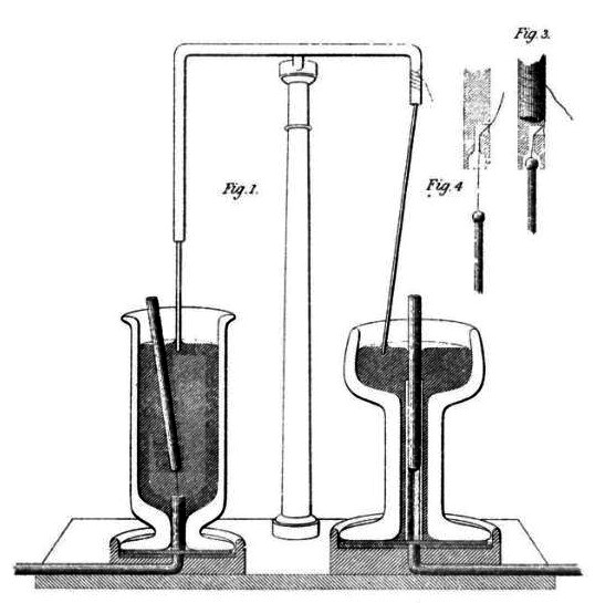 Drawing of Michael Faraday's experiment demonstrating electromagnetic rotation